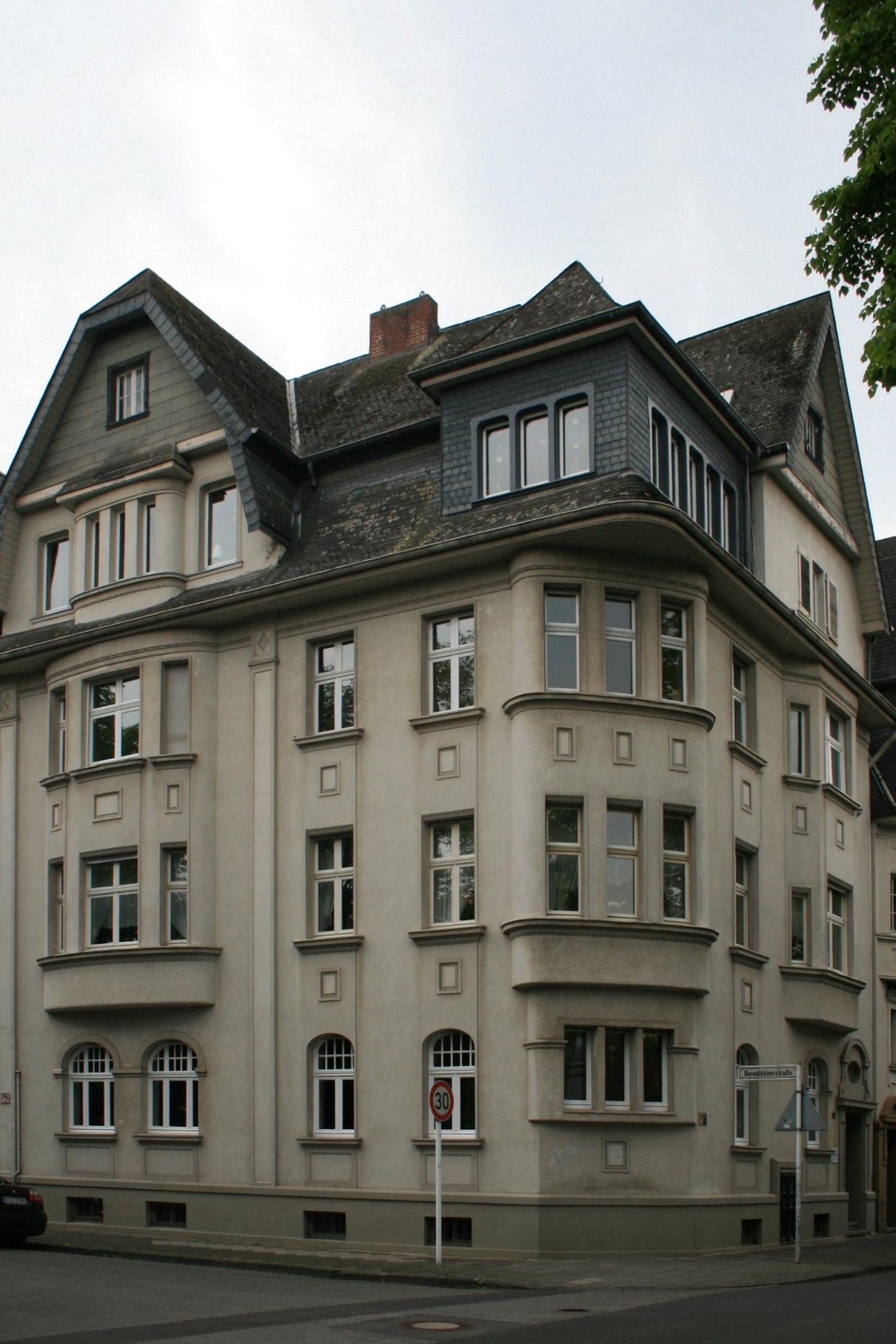 Cultural heritage monument No. F 023 in Mönchengladbach